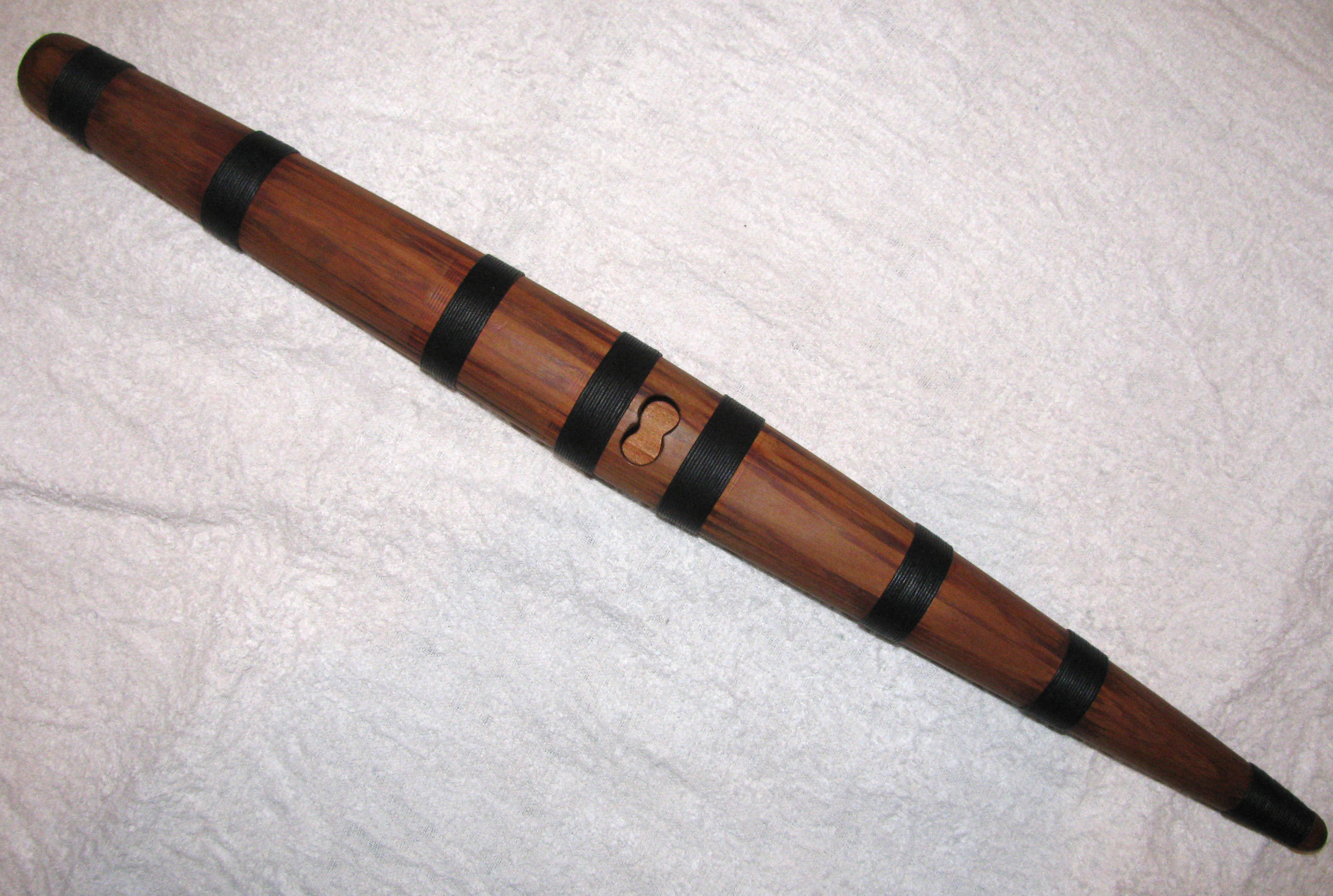 One example of a large Pūtōrino (555mm long and 50mm wide in the middle), a traditional Māori musical instrument that is played as both a flute and a horn. Note the shape resembles the native bag-moth (Psychidae: Liothula omnivora). Constructed in the 21st century using stone tools, this pūtōrino was made from one piece of mataī wood that was split, shaped and hollowed, and then bound back together, in this instance with a modern nylon line. This particular instrument is free of external, carved adornment of any sort.